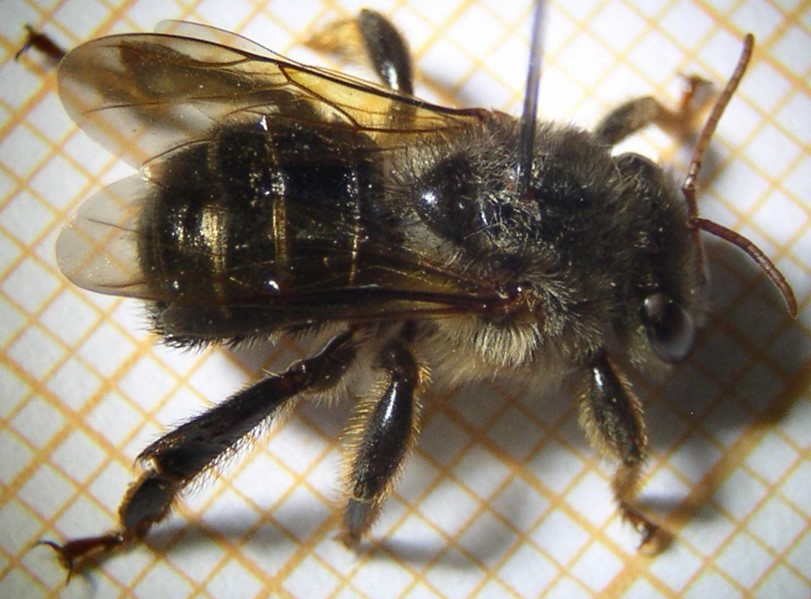 Melipona capixaba. Photographed by Josemar de Carvalho Ramos